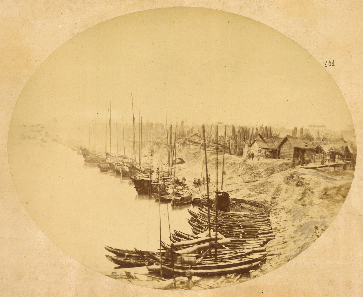 In 1874-75, the Russian government sent a research and trading mission to China to seek out new overland routes to the Chinese market, report on prospects for increased commerce and locations for consulates and factories, and gather information about the Dungan Revolt then raging in parts of western China. Led by Lieutenant Colonel Iulian A. Sosnovskii of the army General Staff, the nine-man mission included a topographer, Captain Matusovskii; a scientific officer, Dr. Pavel Iakovlevich Piasetskii; Chinese and Russian interpreters; three non-commissioned Cossack soldiers; and the mission photographer, Adolf Erazmovich Boiarskii. The mission proceeded from Saint Petersburg to Shanghai via Ulan Bator (Mongolia), Beijing, and Tianjin, and then followed a route along the Yangtze River, along the Great Silk Road through the Hami oasis, to Lake Zaysan, back to Russia. Boiarskii took some 200 photographs, which constitute a unique resource for the study of China in this period. Most of the photographs are included in this album, which later became part of the Thereza Christina Maria Collection assembled by Emperor Pedro II of Brazil and given by him to the National Library of Brazil. Boats and boating; Cities and towns; Dwellings; Memory of the World; Rivers